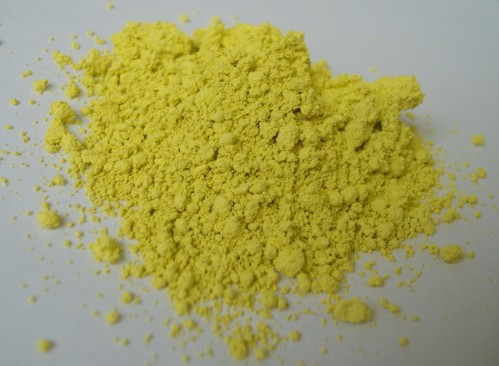 Pigment Yellow 53